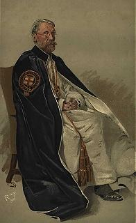 Caricature of Rt Rev Edward Stuart Talbot DD CVO (1844-1934). Caption read "Winton".